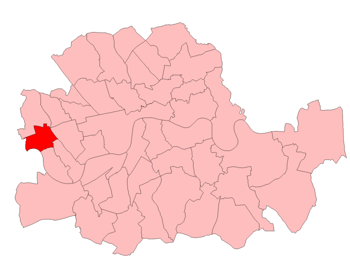 A map of Hammersmith South constituency within the London County Council area, as it existed from 1950 to 1955.